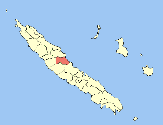 Created map myself.